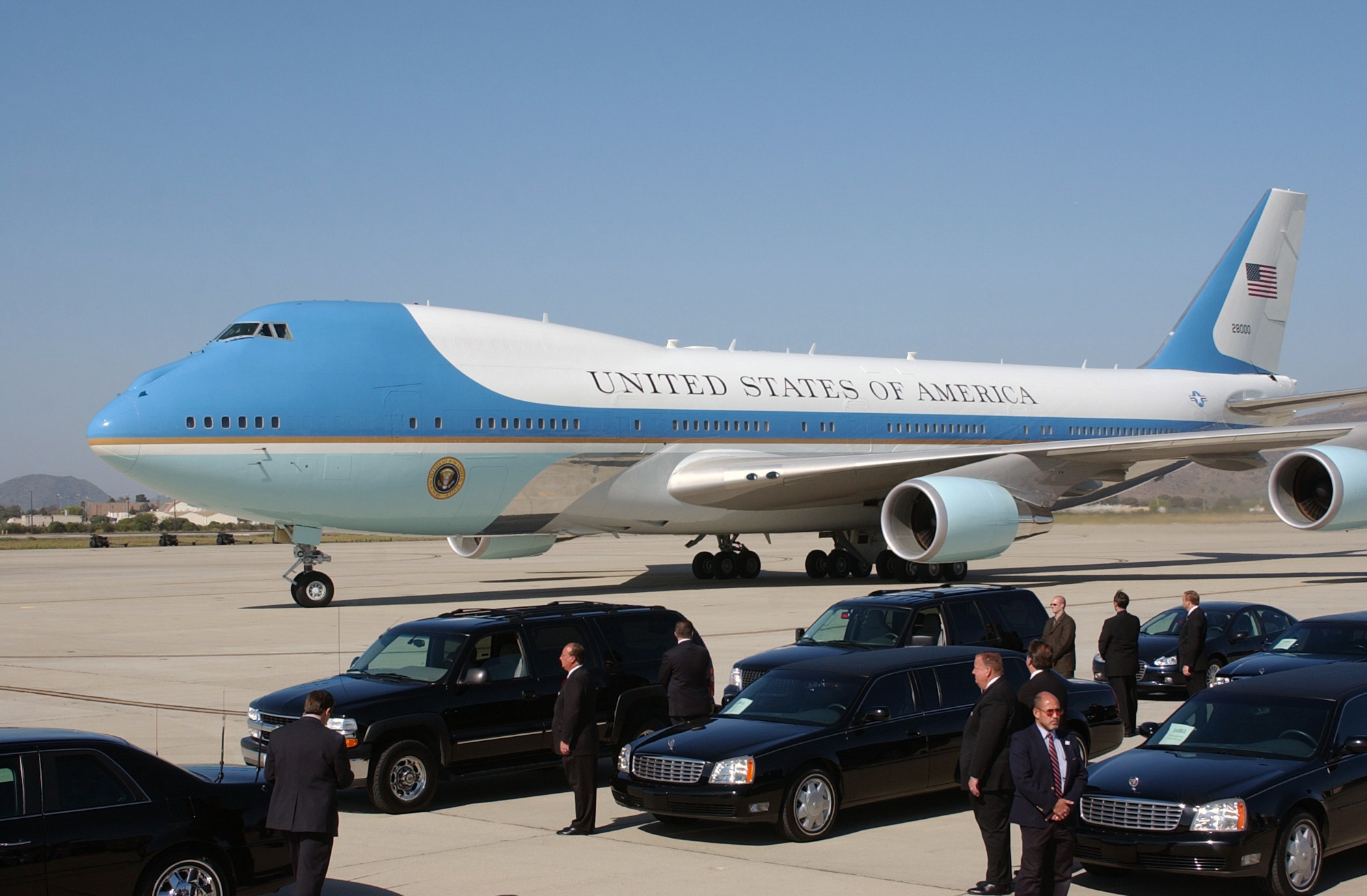 Point Mugu, Calif. (Jun. 11, 2004) - The VC-25 Special Airlift Mission (SAM) 2800 Boeing 747, carrying the body of former President Ronald Reagan, taxies to the flight line where members of the funeral motorcade await to transport the casket to the Ronald Reagan Presidential Library in Simi Valley, Calif., for a sunset interment service in his honor. The observance concludes a weeklong state funeral service for the 40th President of the United States who passed away on June 5th, 2004. U.S. Navy photo by Chief Photographer's Mate Edward G. Martens (RELEASED)